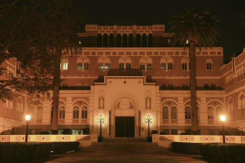 Doheny Memorial Library at USC, Los Angeles. I took this picture on the USC campus. Please observe license and properly cite in use outside Wikipedia.